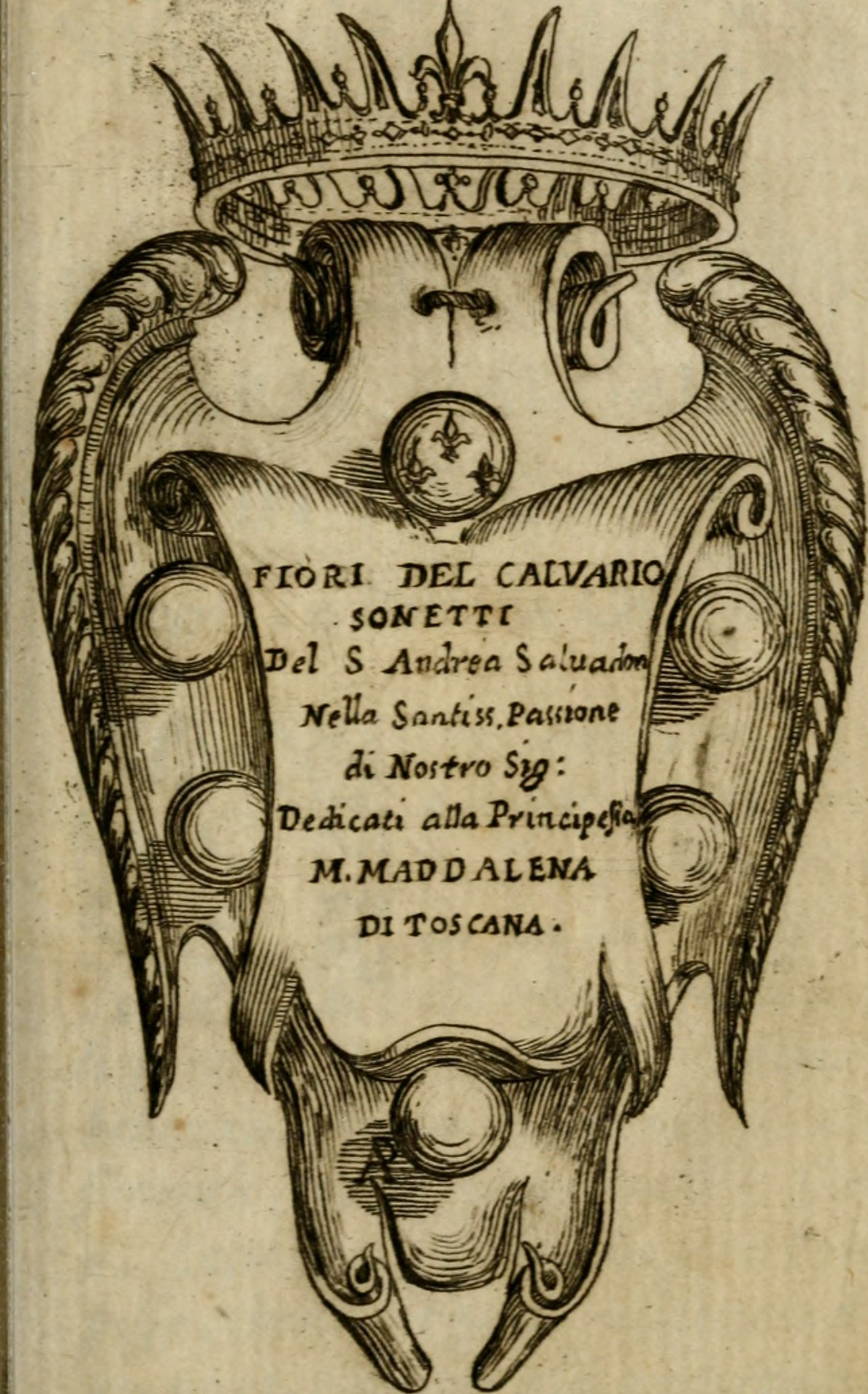 Title: La regina sant' Orsola, del sig. Andrea Saluadori : rappresetata nel teatro del sereniss. gran duca di Toscana al serenissimo principe Vladislao Sigismondo, principe di Polonia e di Suezia ; et, I fiori del Caluario, del medesimo Year: 1625 (1620s) Authors: Salvadori, Andrea, d. 1635 Salvadori, Andrea, d. 1635. Fiori del Calvario Gagliano, Marco da, 1582-1643 Parigi, Alfonso, d. 1656 Subjects: Ursula, Saint Wadysaw IV Zygmunt, King of Poland, 1595-1648 Publisher: (Florence : s.n. Text Appearing Before Image: E $ FIO- Text Appearing After Image: & AllEccellentilTima SIG PRINCIPESSA MARIA MADDALENADI TOSCANA. Signora, e Patrona Colendi/lima• ;SK O«0 * Fwn, propri) or-O SRSl namentìdelle TJvnzd*\ iS Sa! ^ à1 à quelle oltre mo-do fon e ari; forfè per* che^effendo quefii noueUli parti di Primavera, hanno con la~*bellezza* e giouentù loro non poca con-formità y perciò prefentando io Fiori aV. Eccellenza^ credo , Signora Frinri-peffa y che non le parrà difiiceuoleildo-no, anzi, quanto e a lei proporzionato^tanto y per auucntura le farà gradito :£ s tot* ■. IP 6 ìolt prefinto-Fiori, non colti mfTvmani Giardini, che tojlo languirono , mixfiori colti neglOrti dtl Calu^rio, chenellAnime Fedeli, durano con eternafragranza ; §)ueFì\ fono fiati trattidal terreno* e fatti aprire alia Luce aai benignifsimi Raggi di Madama Se»r enifi. Madre di V. Eccellenza, E Sa èFiata la virtù motrice, ella lefottricccagione di questi farti \ Se odore di cri-jlianapietà r.o vaghezza di color poe-tico, può te in e/si dilettare, d.